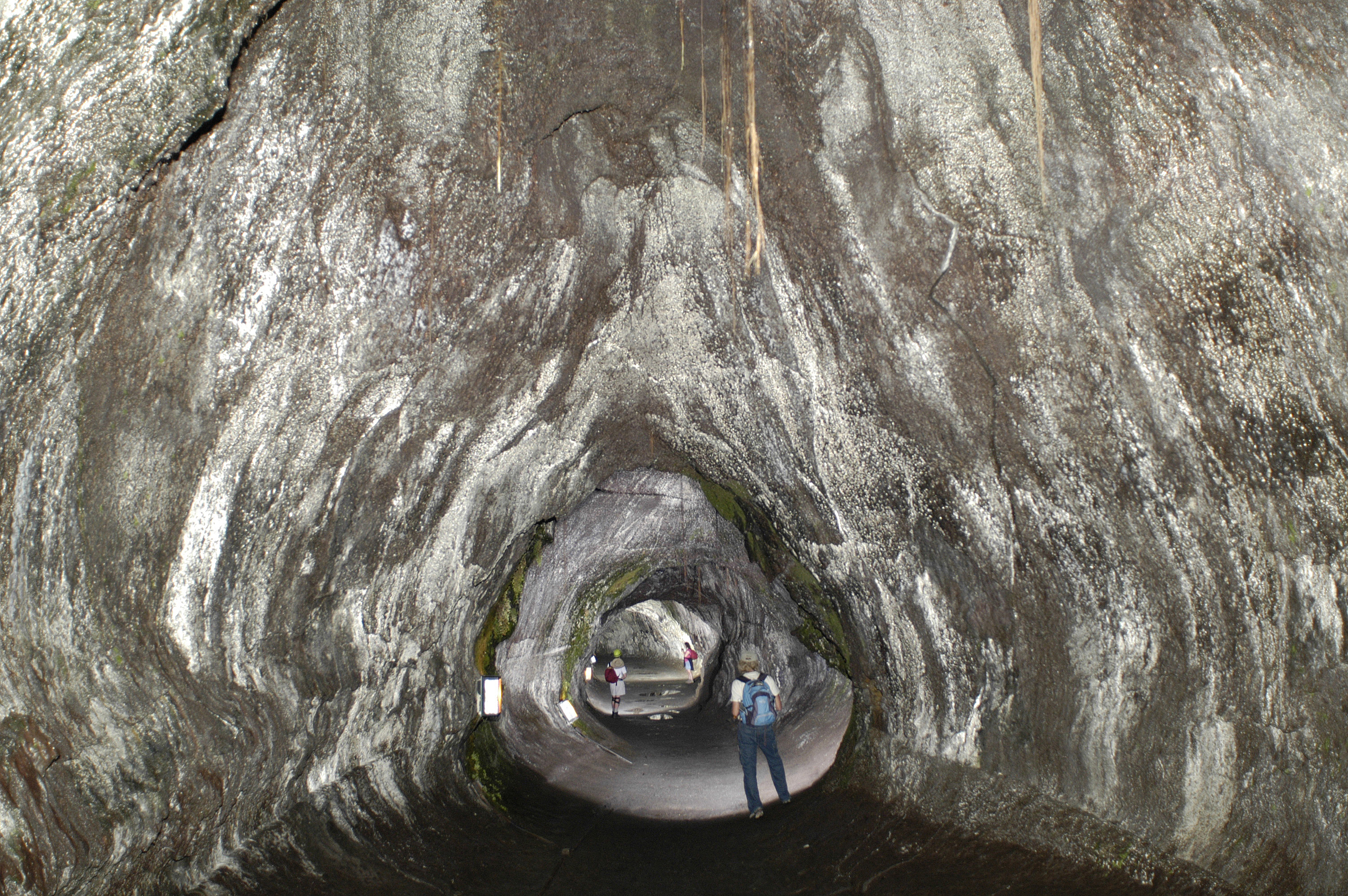 Thurston lava tube in Hawai'i Volcanoes National Park is the only one in the park open for visitors and is one of the most popular attractions. This one was lit with 4 separate flashes rather than using the park's lighting and shows the true colors of the cave. A couple features visible in this are a long contraction crack (on the right) from when the lava cooled, and a flow line about two feet up from the floor, denoting the level of the last flow through the cave.